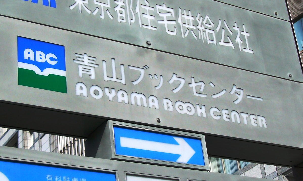 A direction board at the entrance of Cosmos Aoyama saying Aoyama Bookcenter (Aoyama, Tokyo)